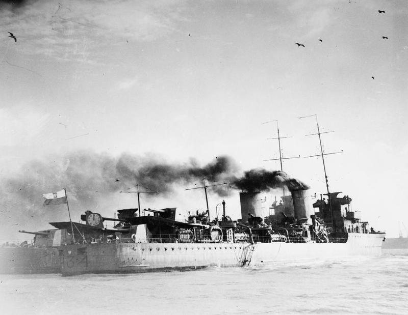 The Polish Navy during the Second World War The two Polish destroyers, ORP Grom (Thunder) and ORP Błyskawica (Lightning) seen after Operation 'Pekin', the evacuation of units of the Polish Navy to British home waters in September 1939. The destroyers are moored side by side at a buoy, ORP Błyskawica nearest.